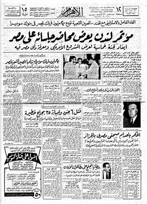 Al-Ahram Newspaper During Suez Crisis